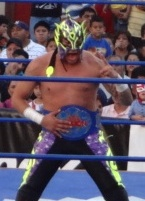 Fénix when was crowned as AAA Fusion Champion. Cropped from File:Fenix-AAA-Fusion-Champion.JPG